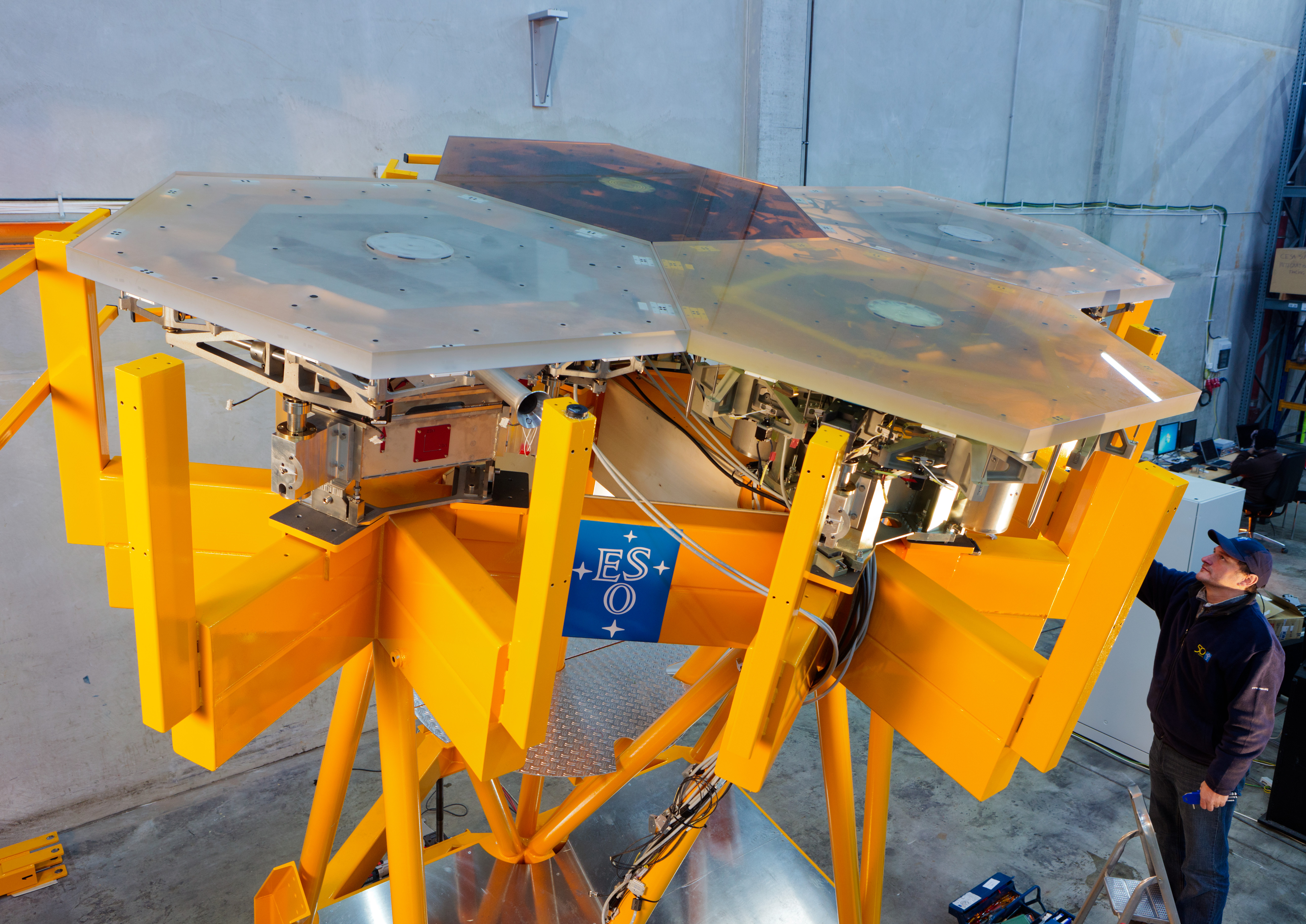 Four segments of the giant primary mirror of the E-ELT undergoing testing together for the first time. The assembly, at ESO’s facility in Germany, provides a full-size mock-up of a small section of the E-ELT primary mirror and its support structures. During tests, the whole assembly can be tilted at an angle of up to 45 degrees. Standing some two metres above the floor, four test mirror segments have been placed on their supports to see how they behave together and when tilted.